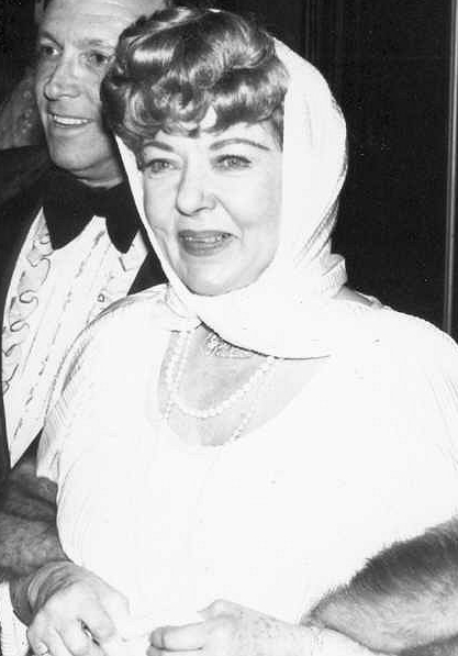 Photo of actress Ida Lupino.